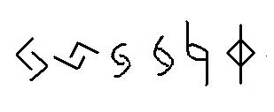 evolution of the j-rune in futhorc alfabet.